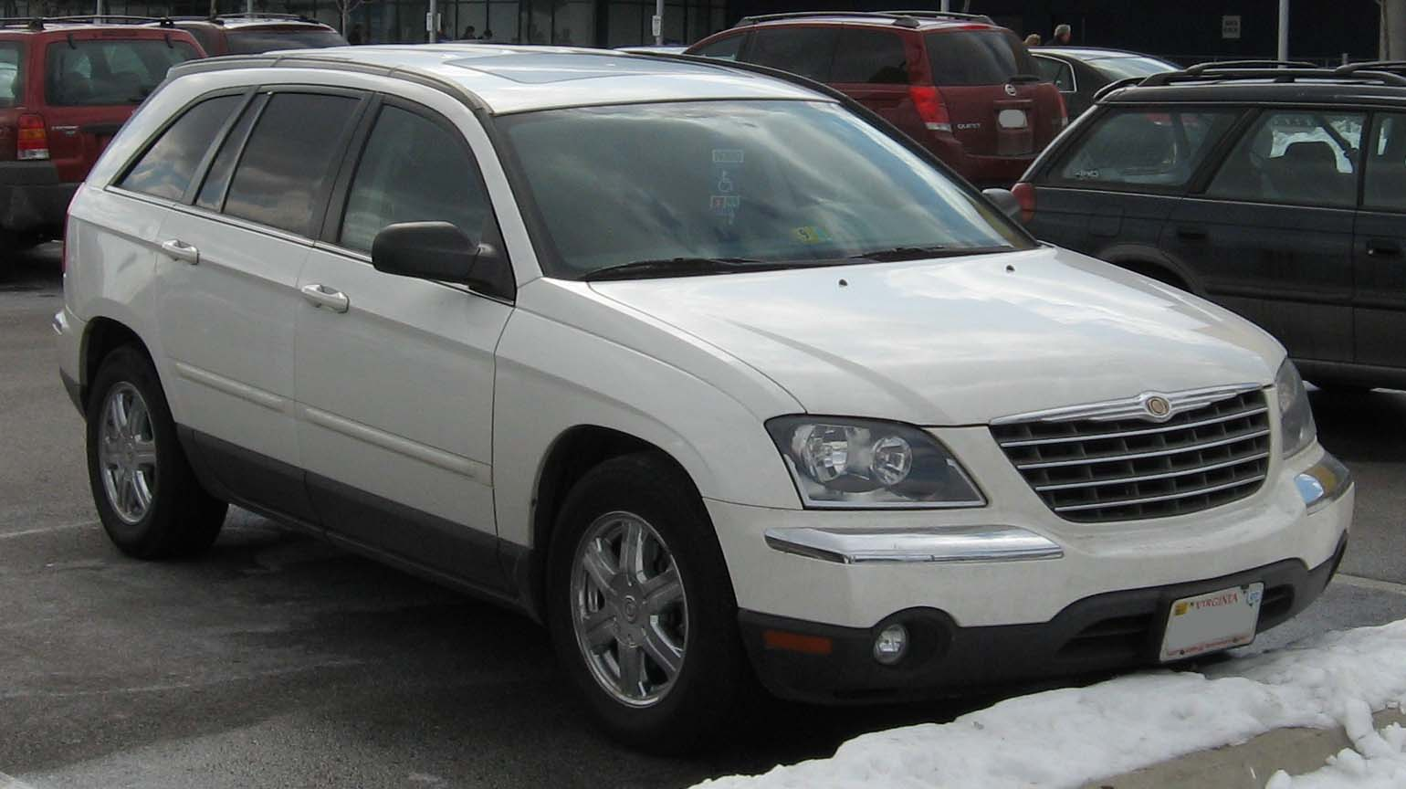 2004-2007 Chrysler Pacifica photographed in USA.